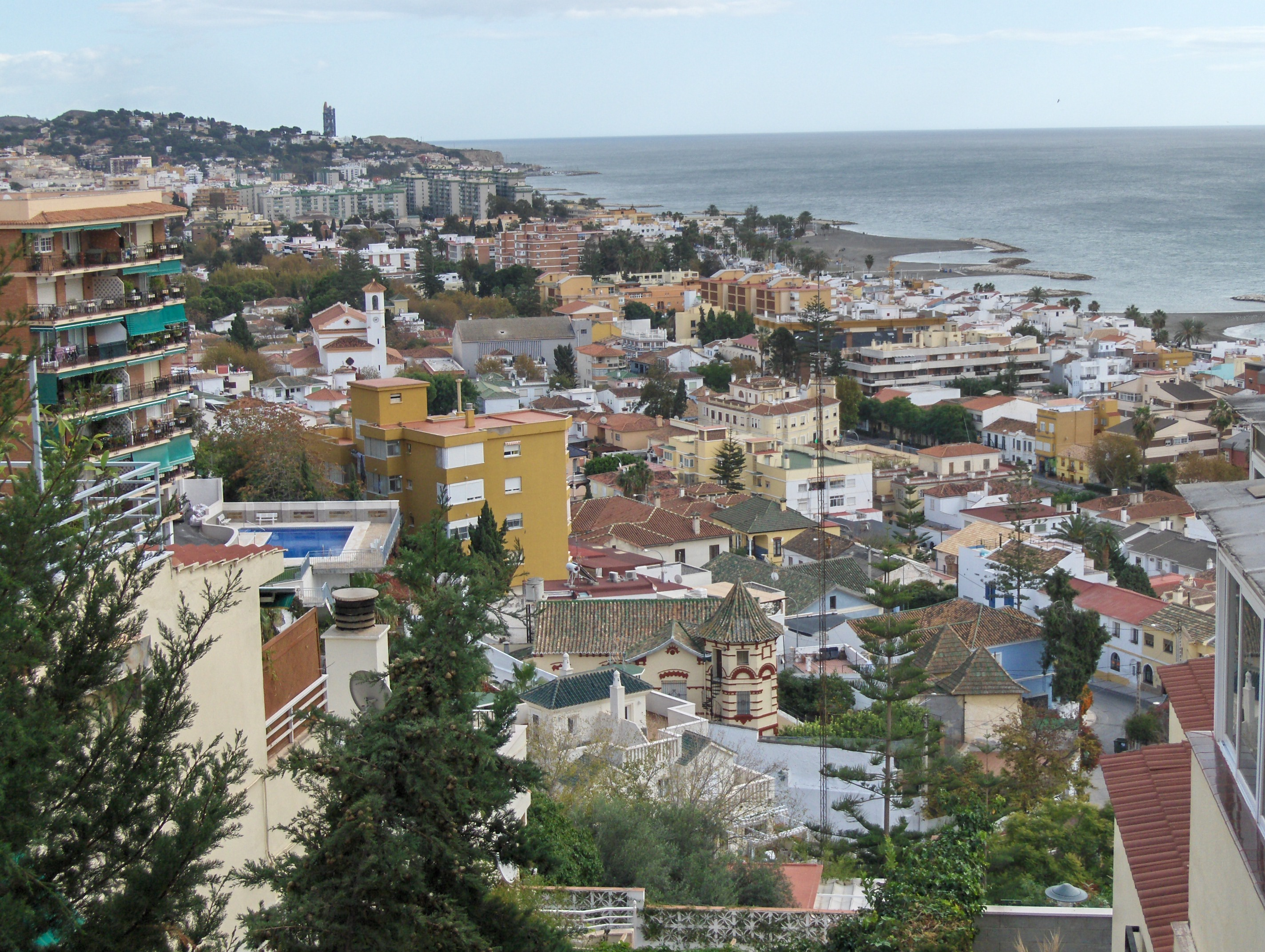 View of Pedregalejo, Málaga.